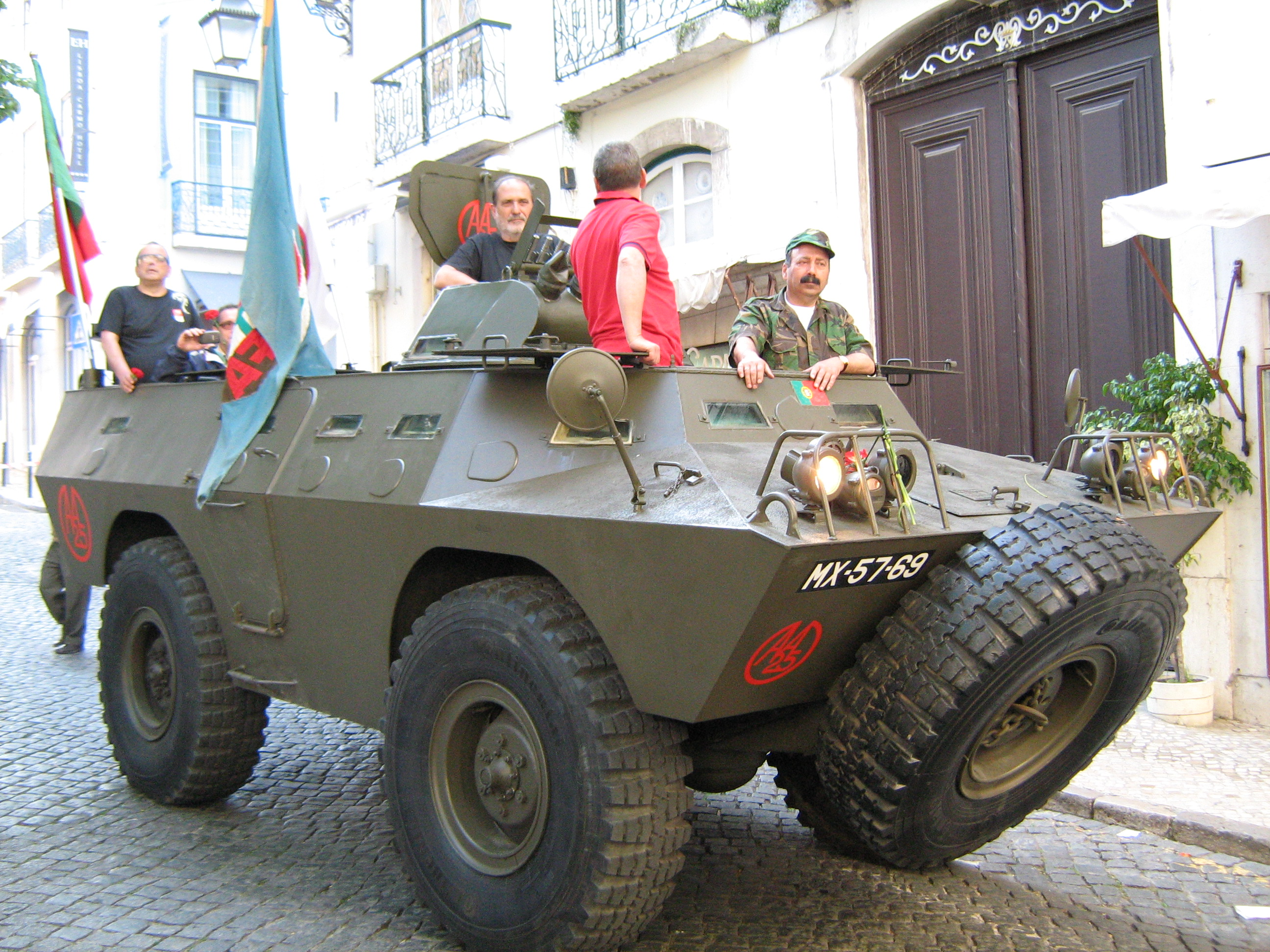 Largo do Carmo in Lisaboa, Portugal, on April 25, 2013, the 39'th anniversary of the Carnation Revolution, that took place on this square in 1974.